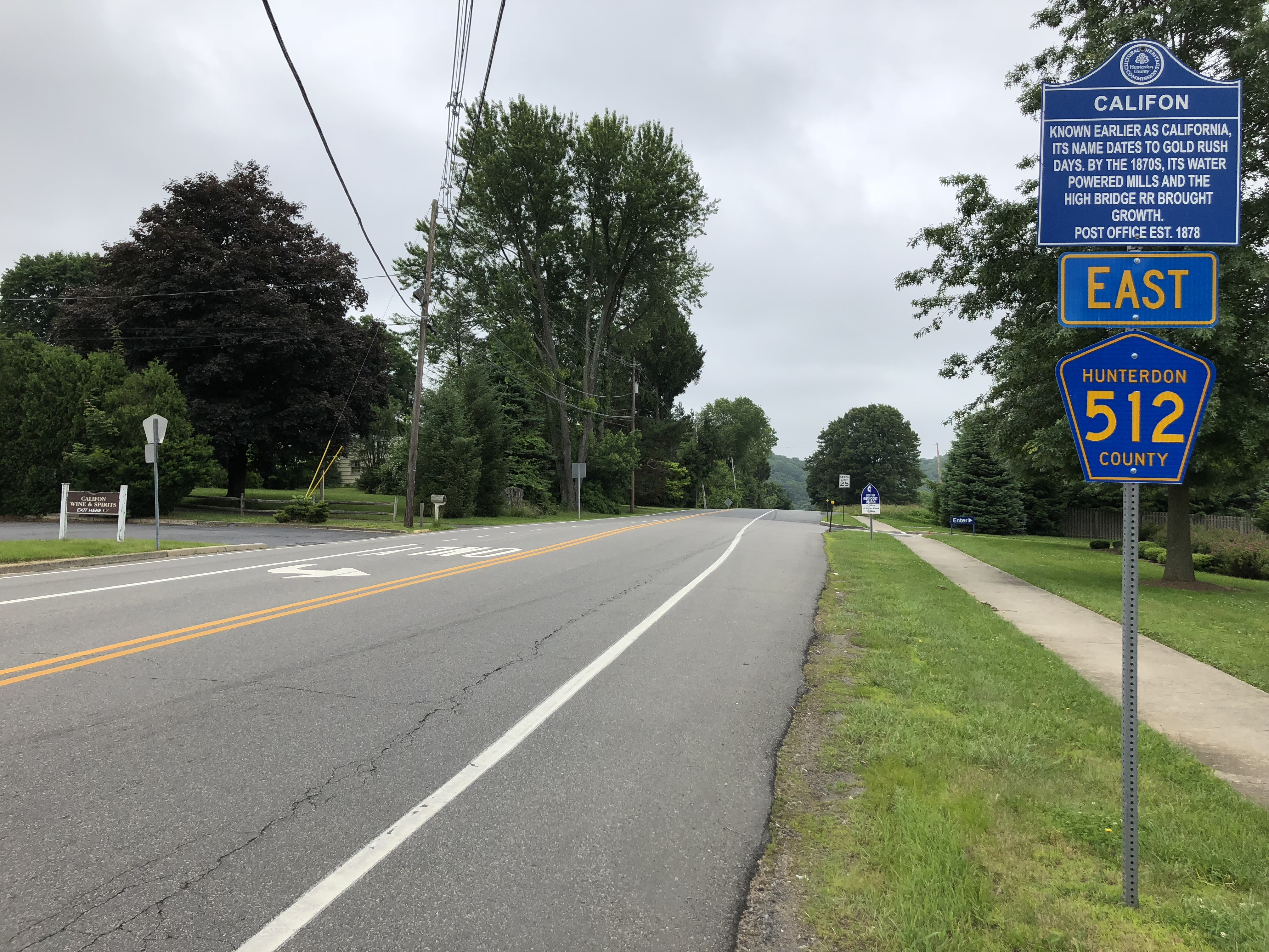 View east along Hunterdon County Route 512 (Main Street) just east of Hunterdon County Route 513 (High Bridge-Califon Road) in Califon, Hunterdon County, New Jersey